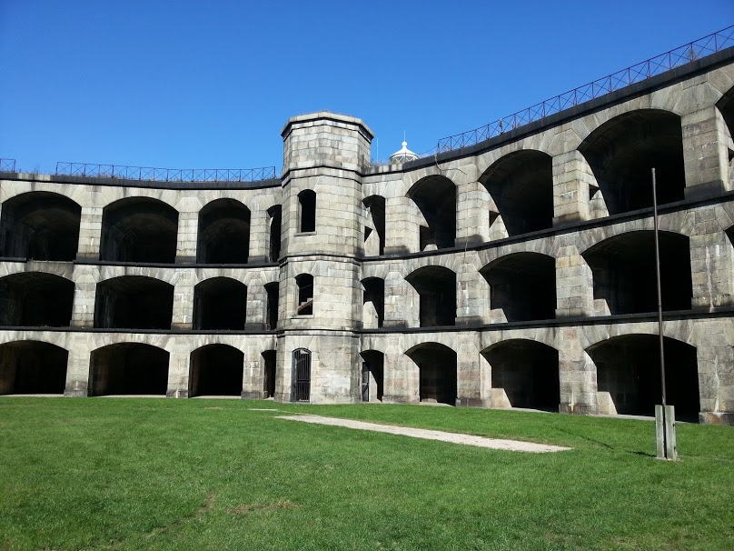 Site: Battery Weed